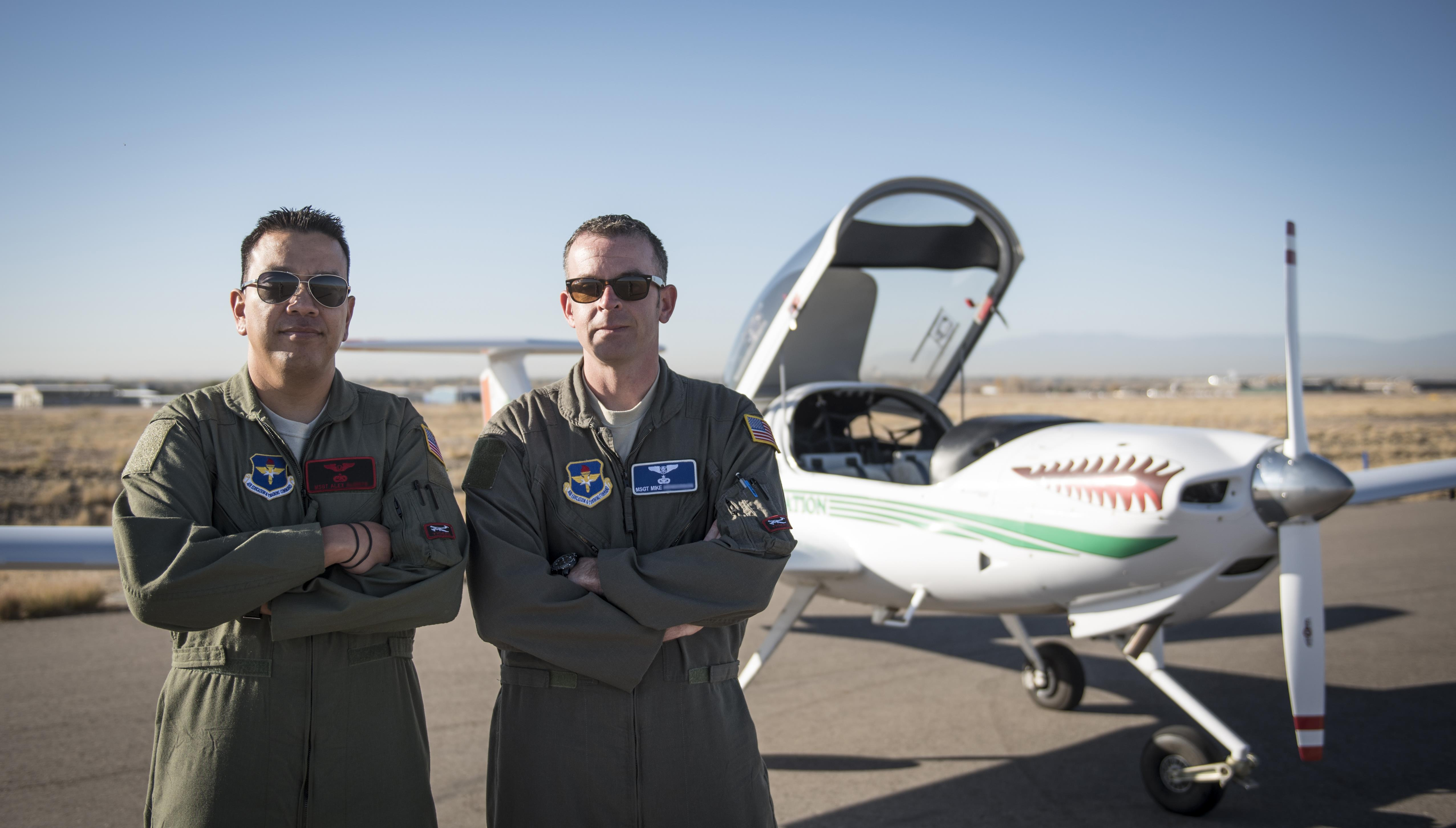 The first two enlisted pilots in the Air Force in 60 years after soloing.